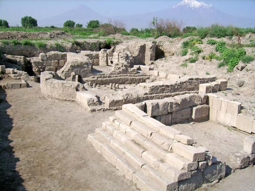 Public baths located in the South eastern side of the capital Artaxata